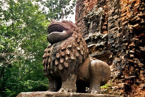 C1 Sanctuary. Sambor Prei Kuk. Cambodia